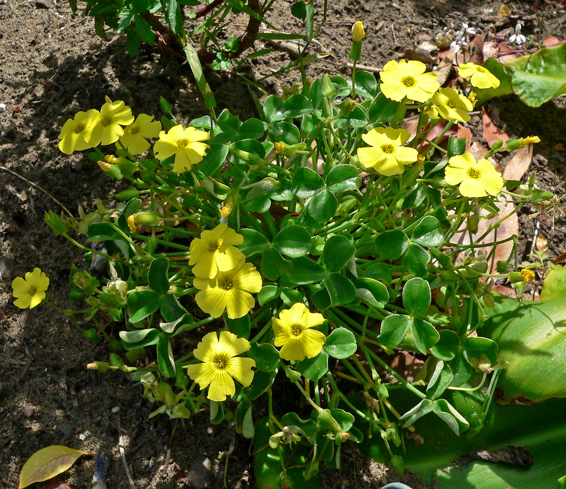 Oxalis megalorrhiza Jacq., 1794 at the San Francisco Botanical Garden